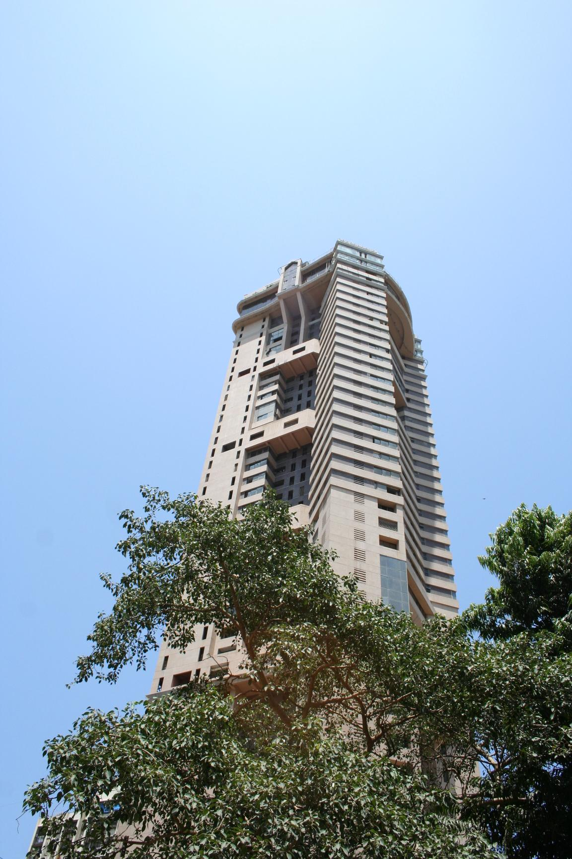 Another view of Shreepati Arcade, at Nana Chowk in Mumbai, currently India's tallest building.